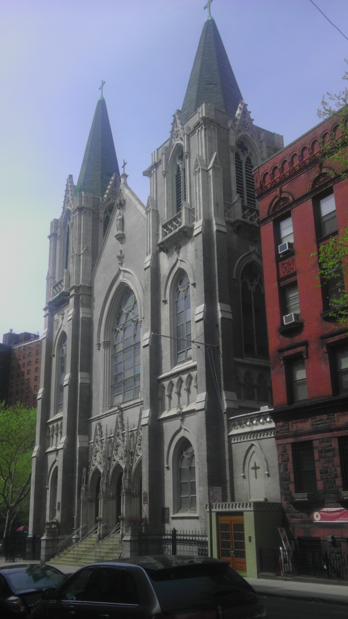 Looking north across 141st Street at St Charles Borromeo Church Harlem.